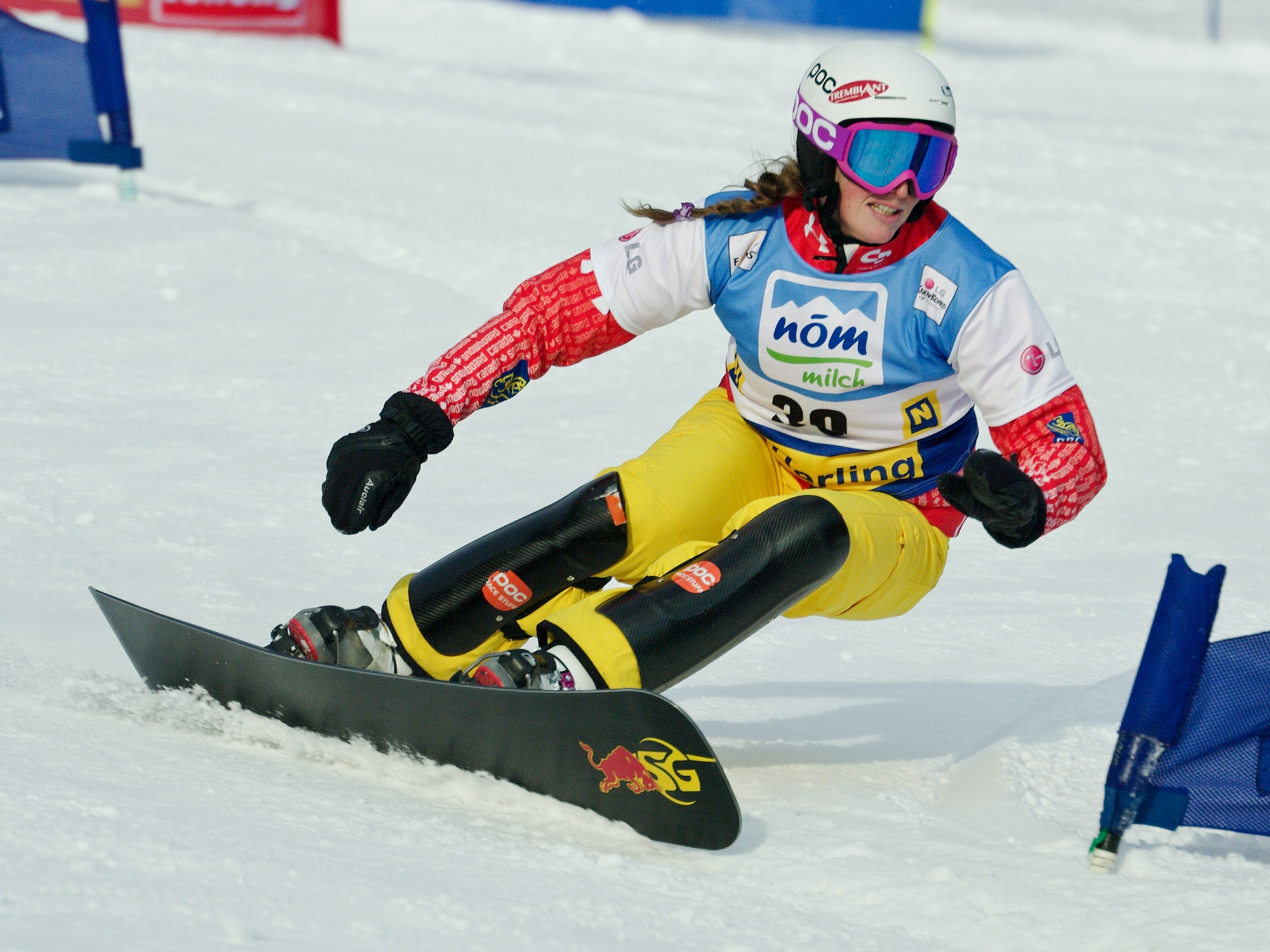 Canadian snowboarder Ariane Lavigne in the qualification round of the World Cup Parallel Slalom at the Jauerling in Austria on 13 January 2012.